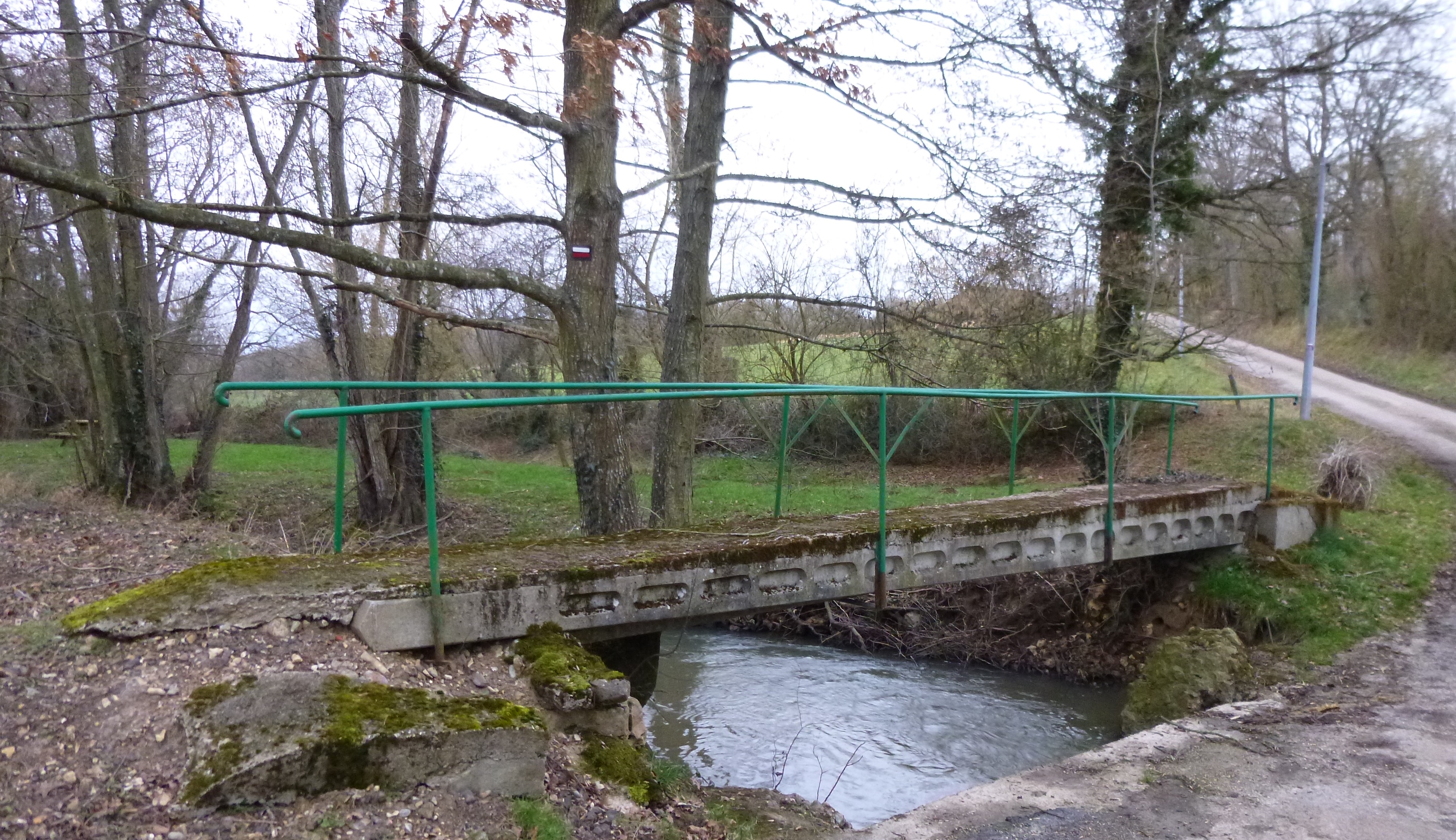 Perreux, Yonne, Burgundy, France. The ru des Pierres at the Moulin de la Coudre (La Coudre mill). Looking downstream towards Perreux. In the patch of grass behind the stream, is a spring which feeds a small crystal-clear pond (very large puddle-sized). The spring is encased in a re-used (clean) drainage pipe unit (clean), cut off on the side towards the flow's natural outlet and settled into place with local limestone boulders. The footbridge re-uses two electric road posts and four railway blocks.